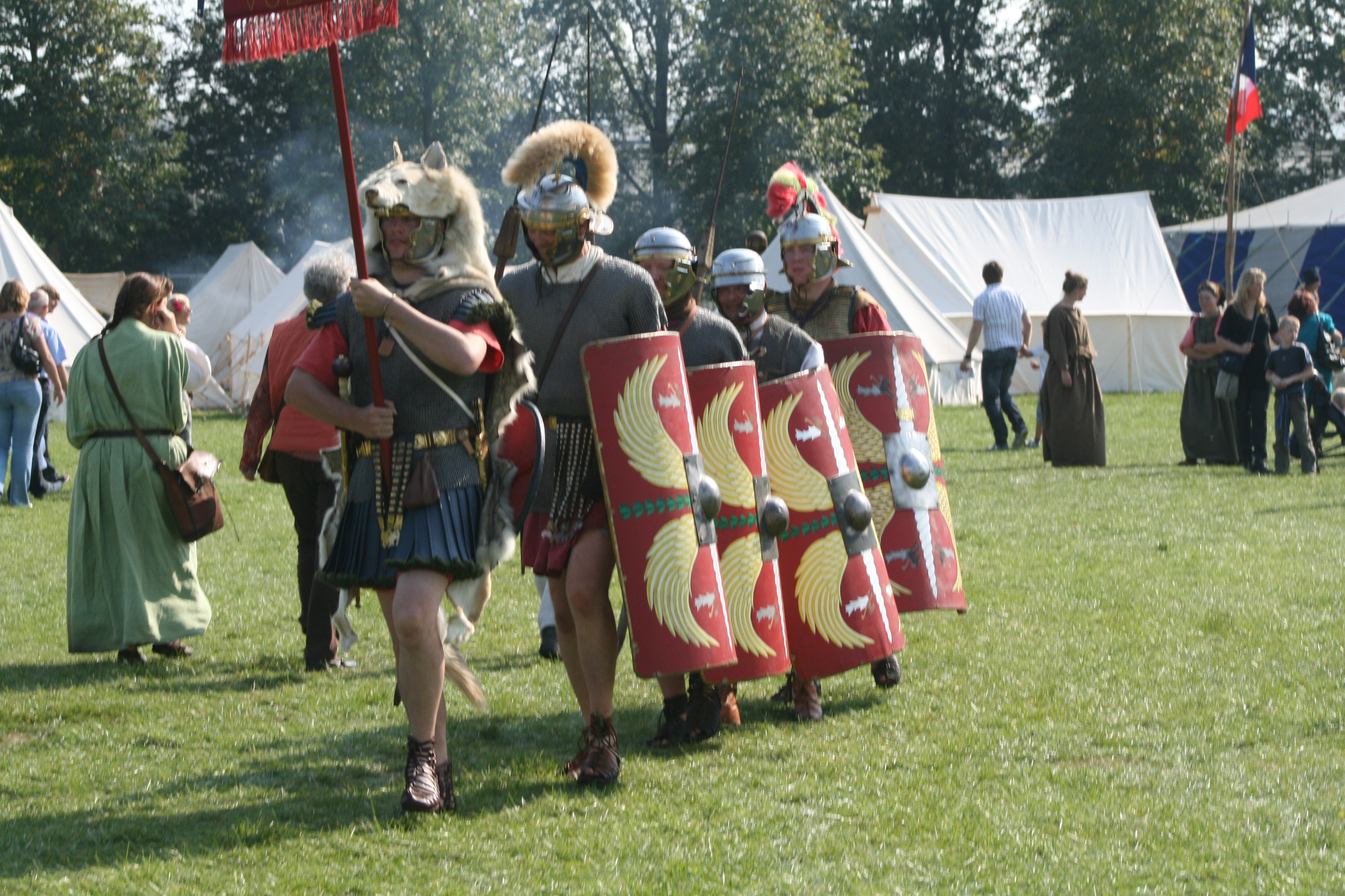 Roman soldiers of the Cohors XV by Pax Romana.